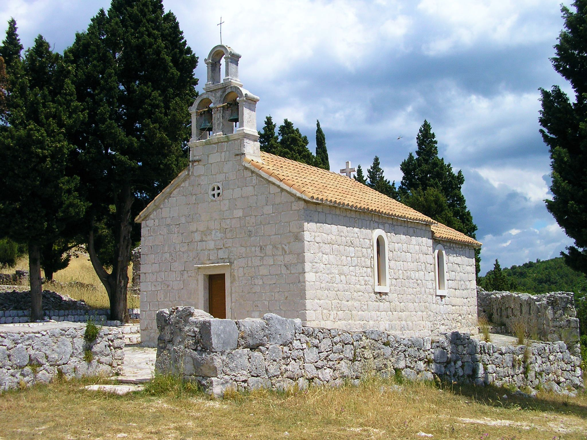 Church of the Assumption in Smrdan grad